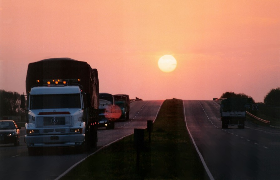 Road "Ruta Nacional 7" in Junin, Argentina